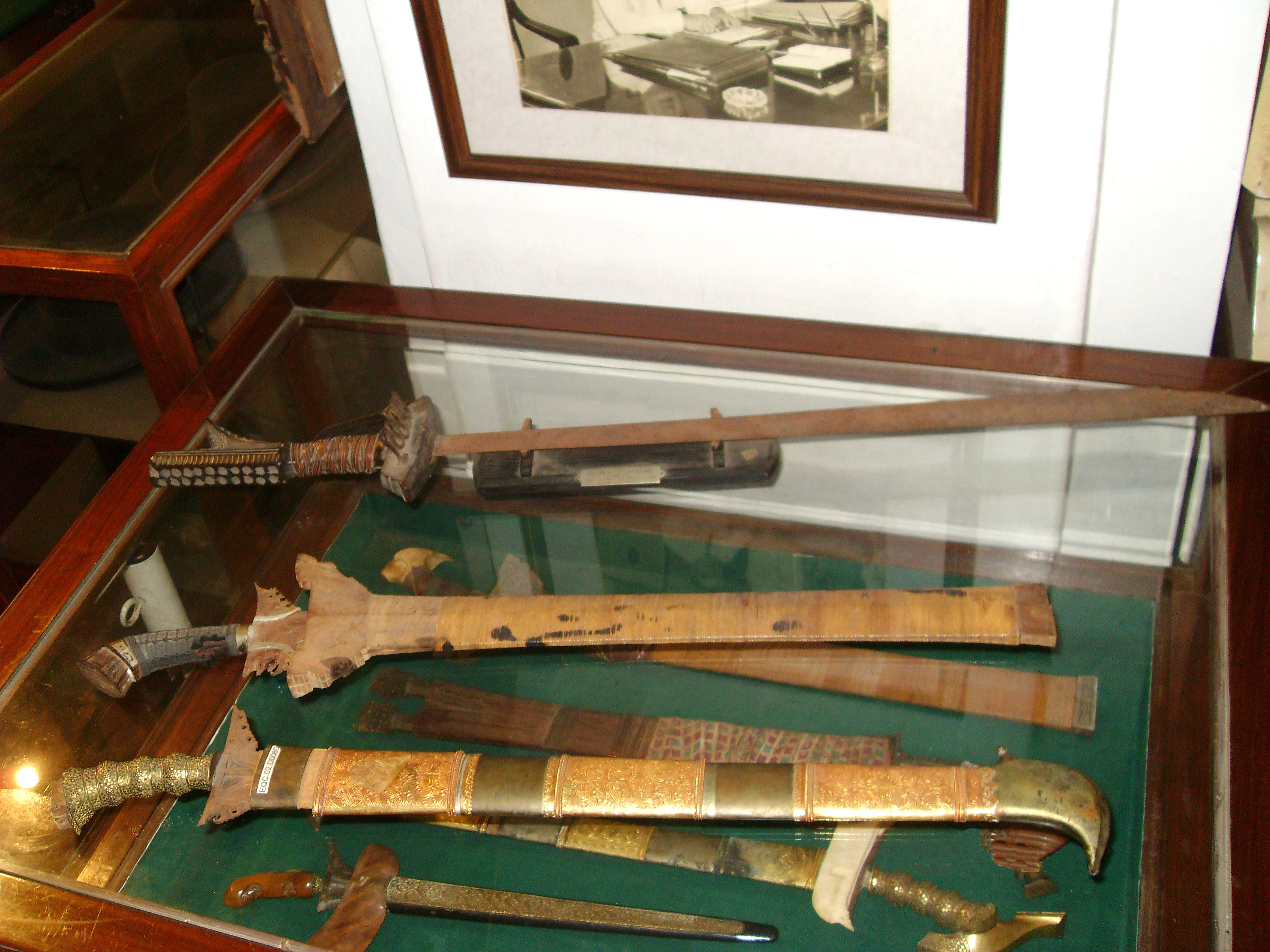 Swords on Display at the Quirino-Syquia museum in Vigan, Ilocos Sur. The topmost, unsheathed sword is a kampilan, while the other prominent swords are variations of Kris.